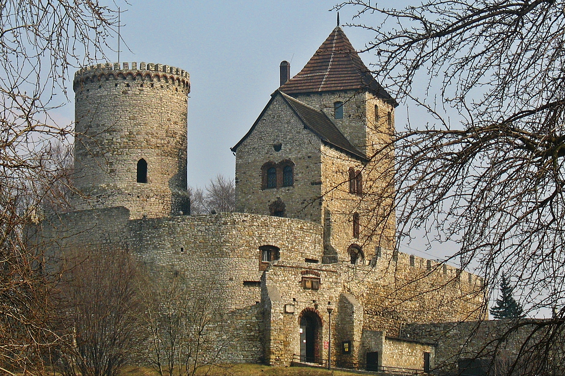 Będzin Castle, a stone castle from the 14th century